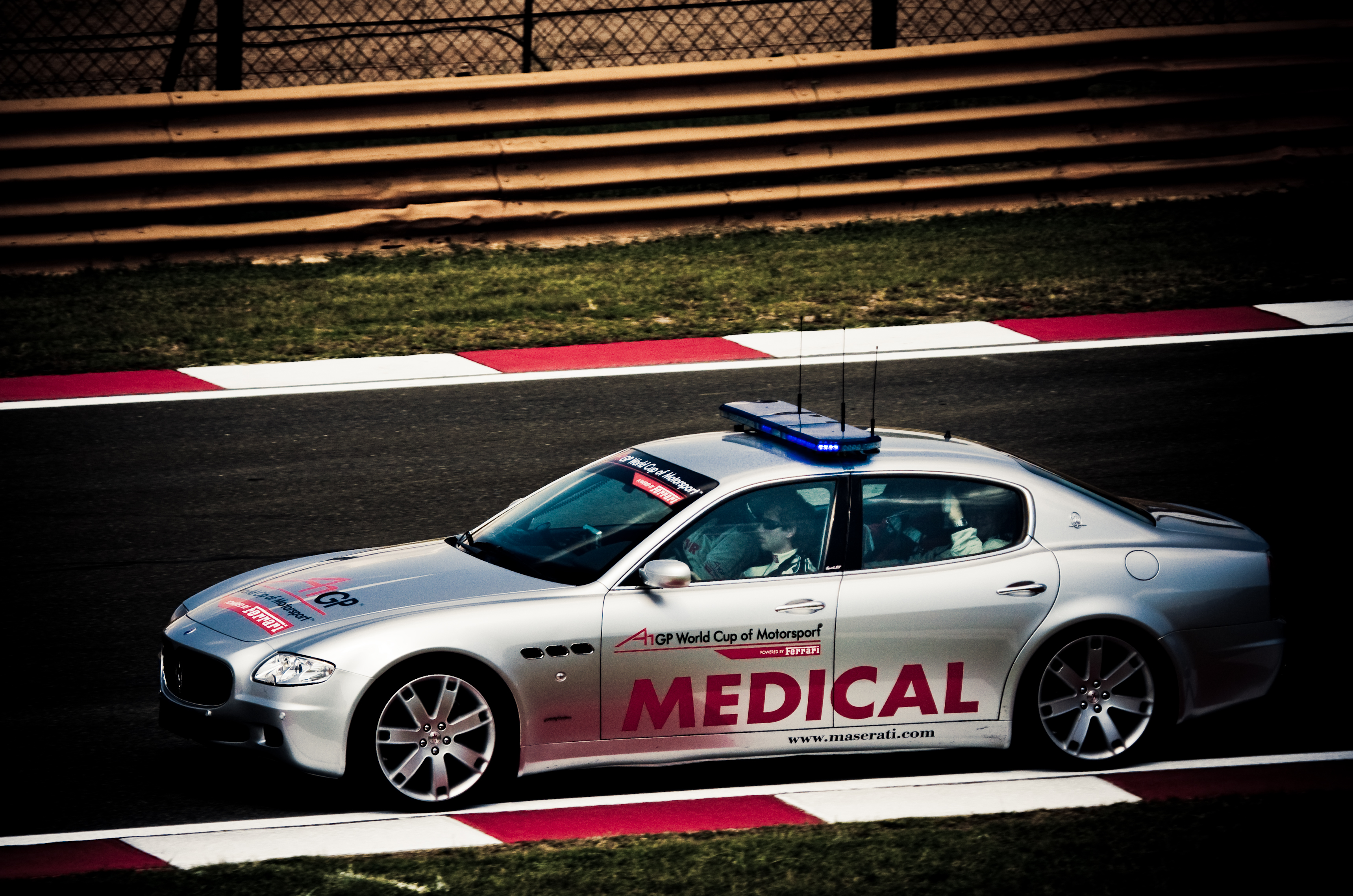 A1 GP Medical Car @ A1 Grand Prix Kyalami South Africa 2009